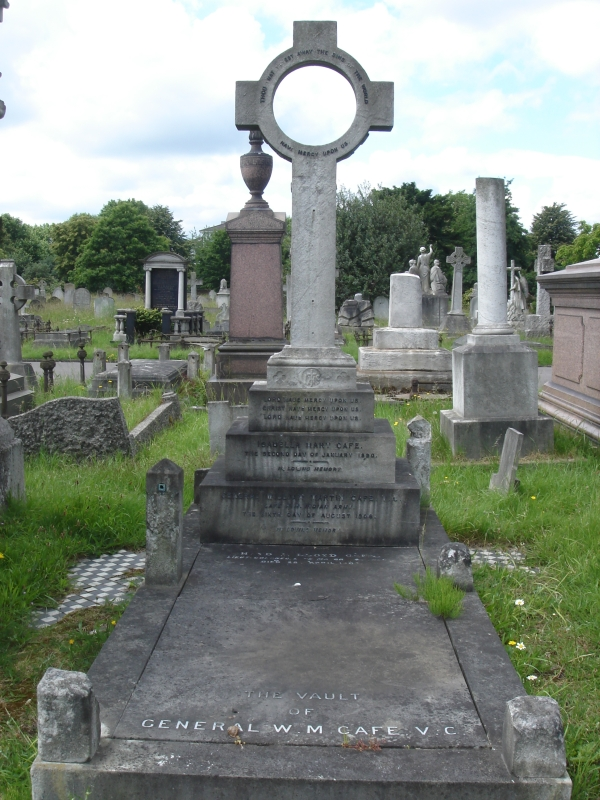 Grave of William Martin Cafe, Brompton Cemetery.